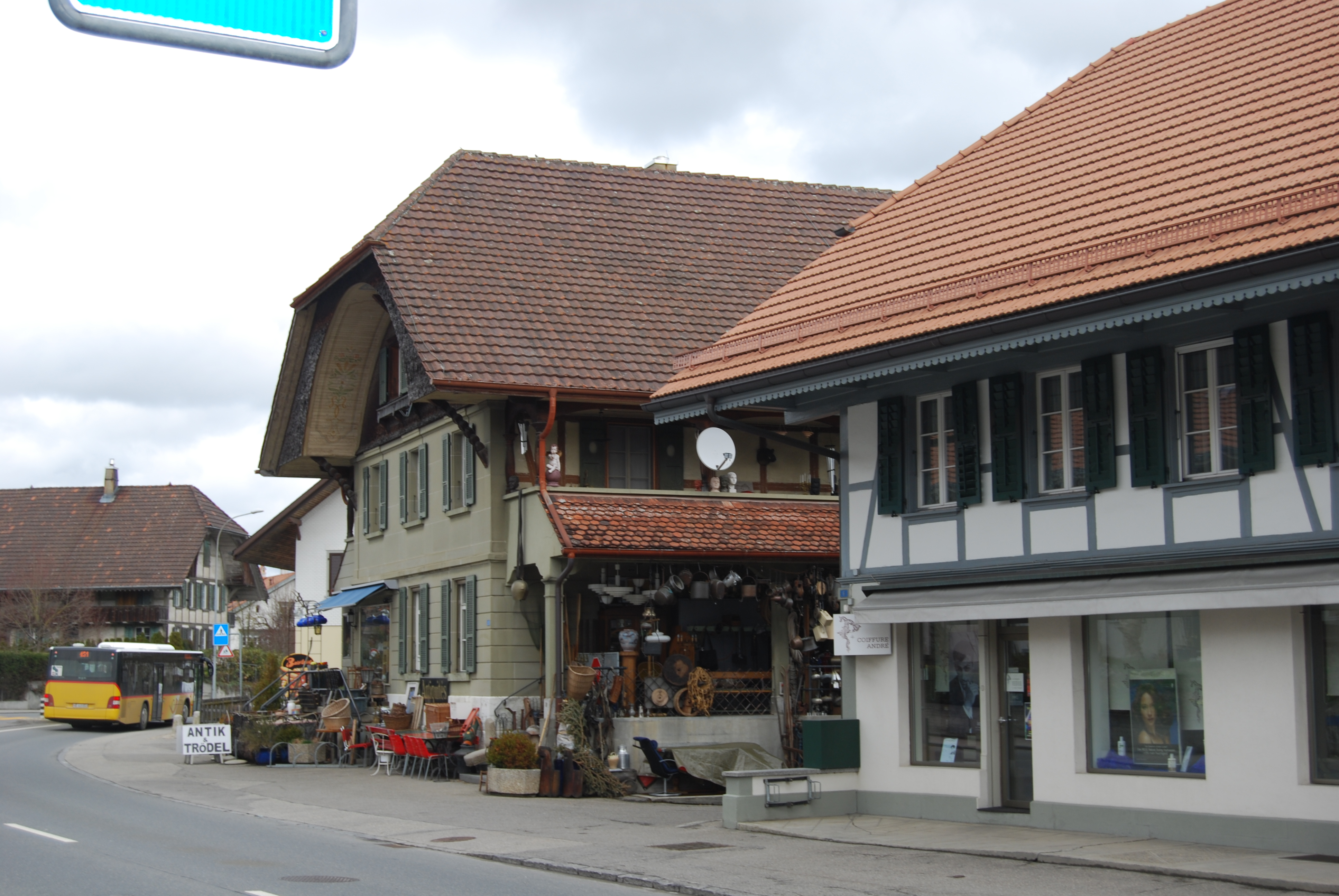 Hindelbank, canton of Bern, SwitzerlandEsperanto: Hindelbank, Kantono Berno, Svislando